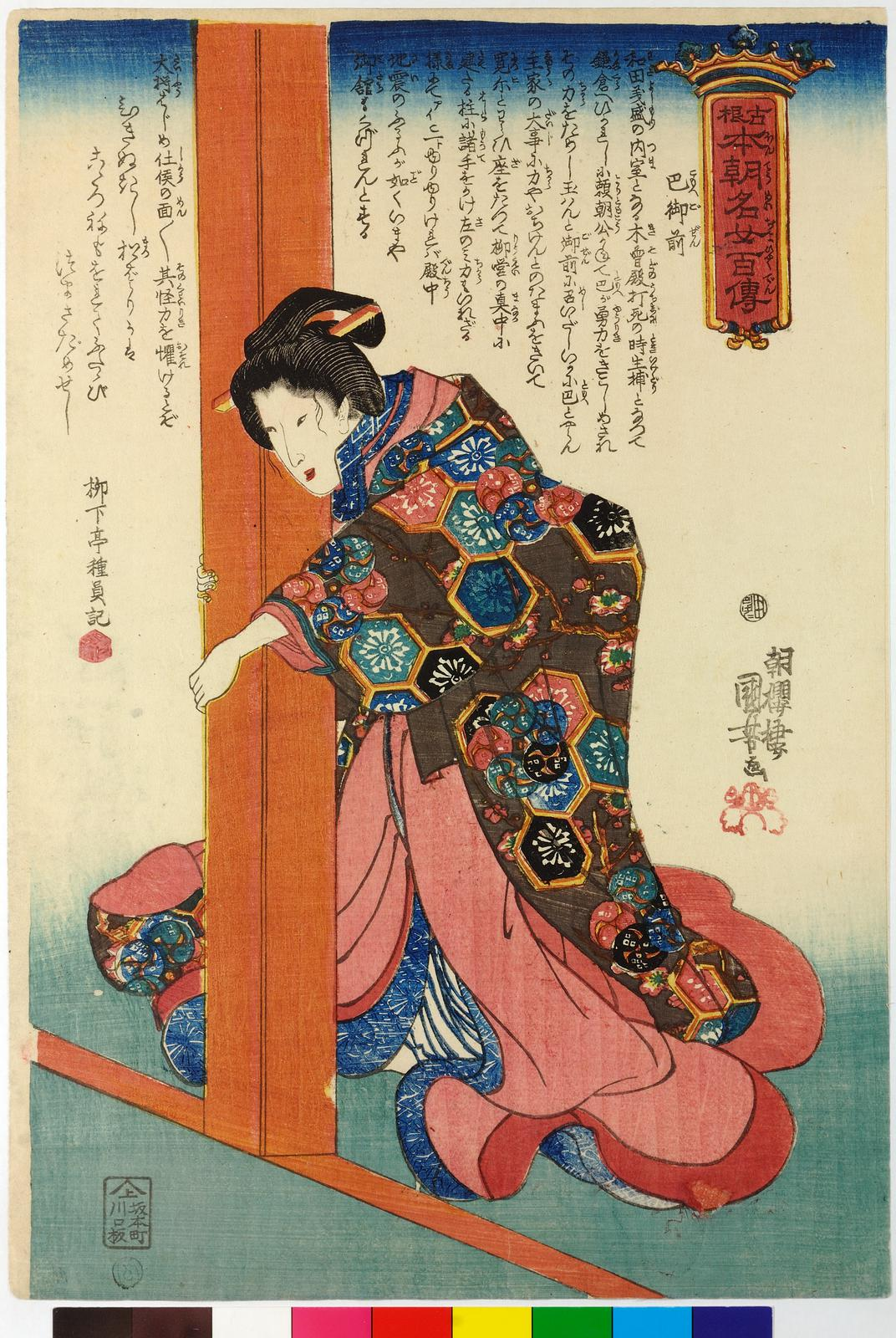 Woodblock print, oban tate-e. Tomoe Gozen gripping a palace pillar.